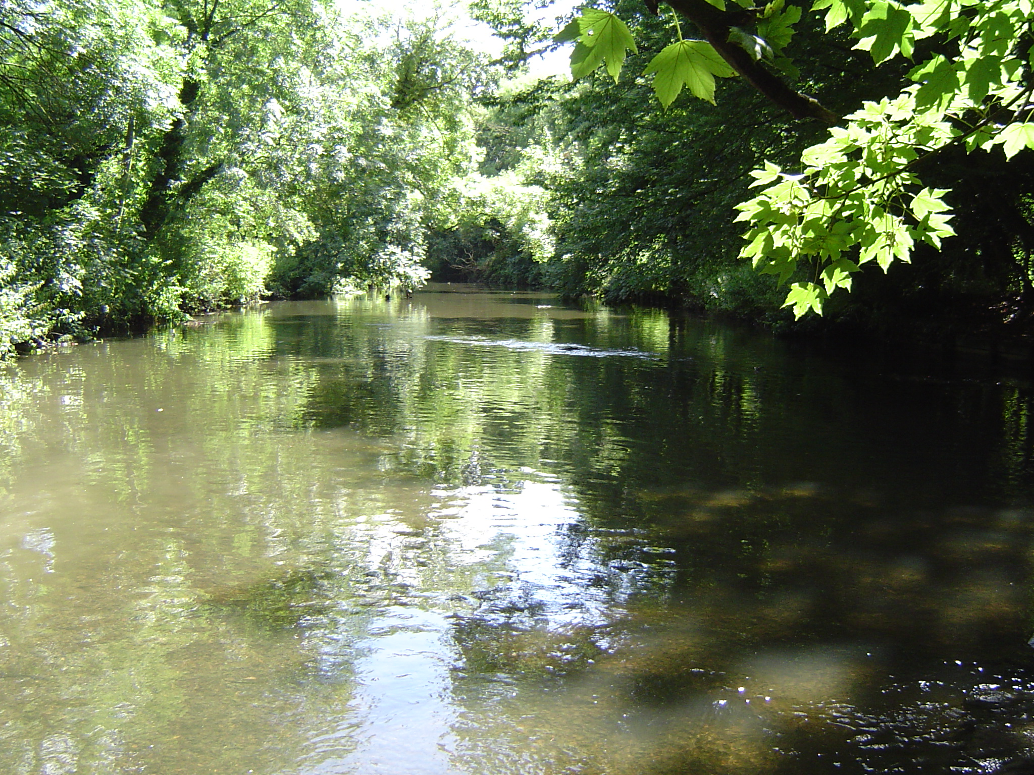 River Crane near Twickenham